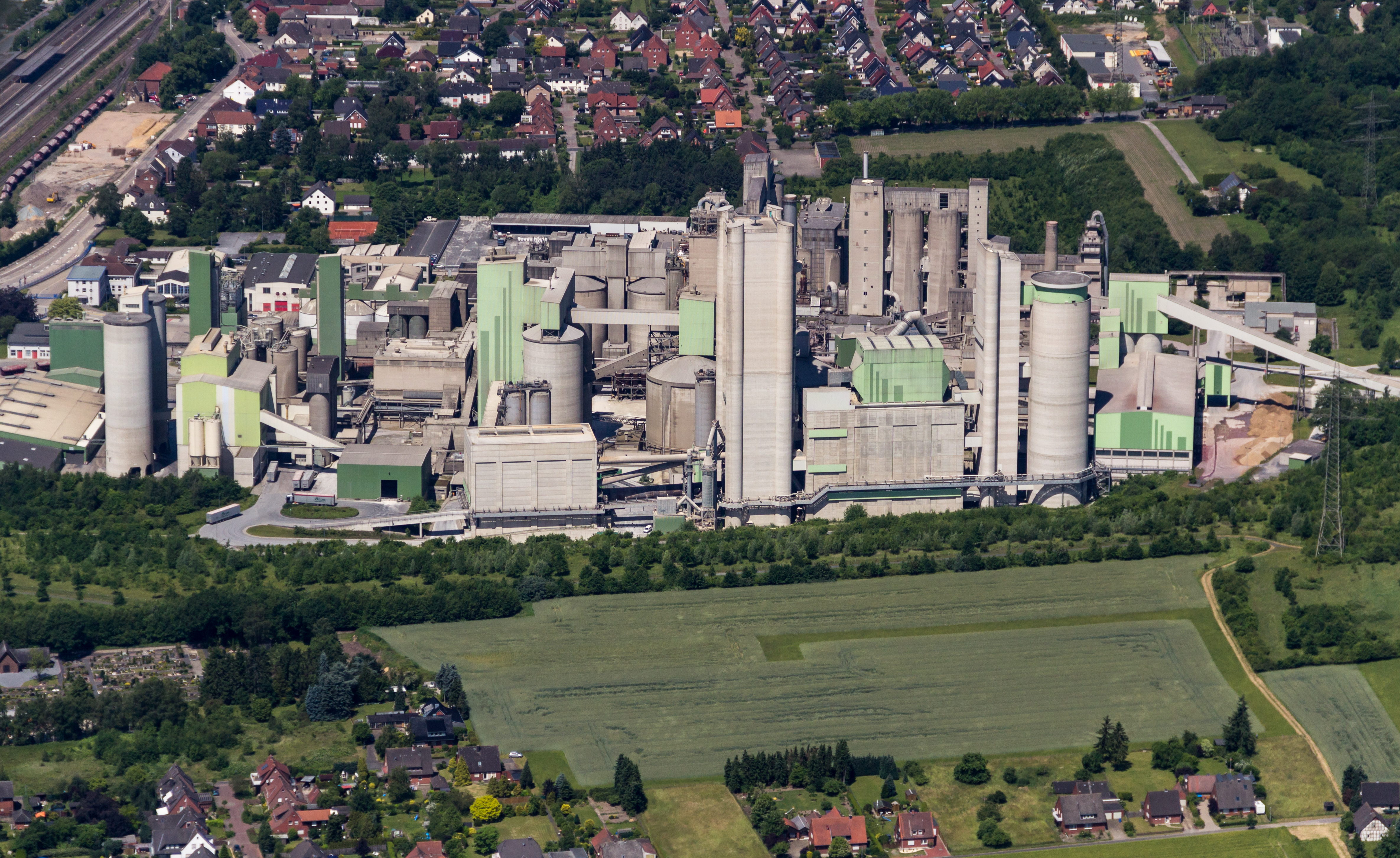 Dyckerhoff-Zementwerke, Lengerich, North Rhine-Westphalia, Germany